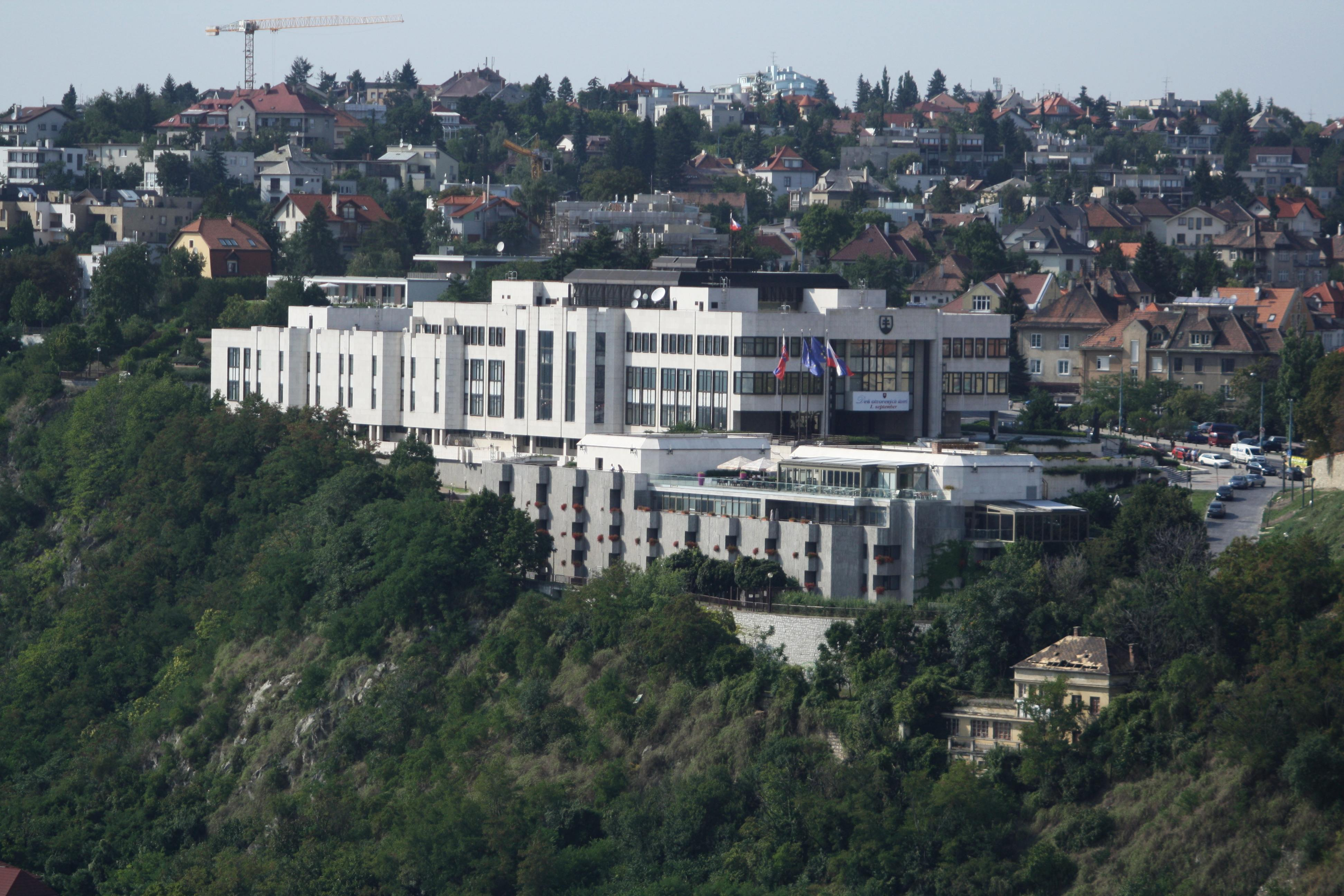 National Council of the Slovak Republic in Bratislava, view from Nový most viewpoint.